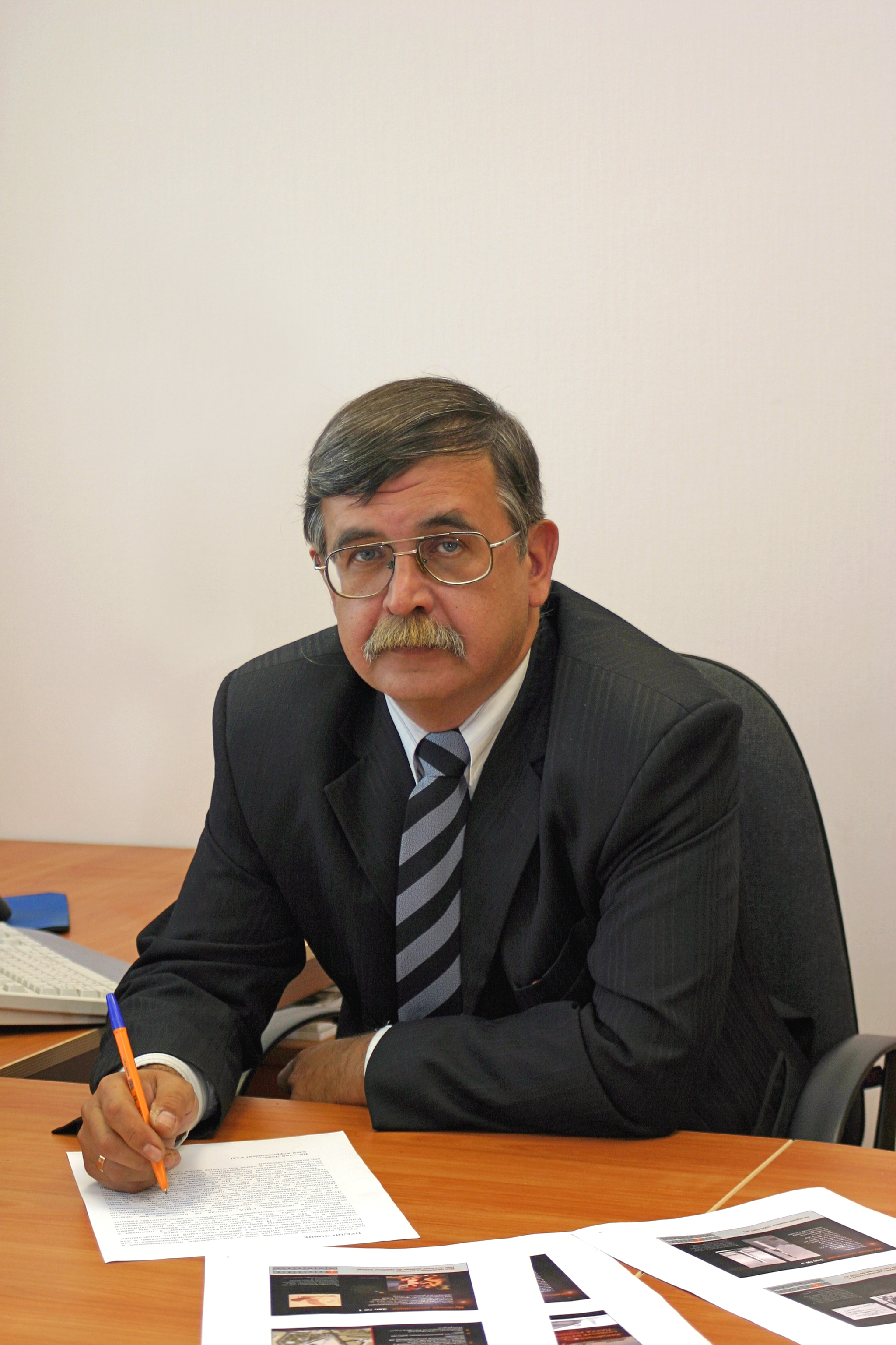 Alexandr Borisovich Zheleznyakov, born 1957-01-27, Russian spaceflight and rocket industry specialist, journalist, writer